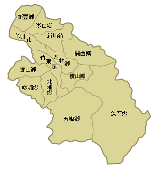 hsin chu hsien